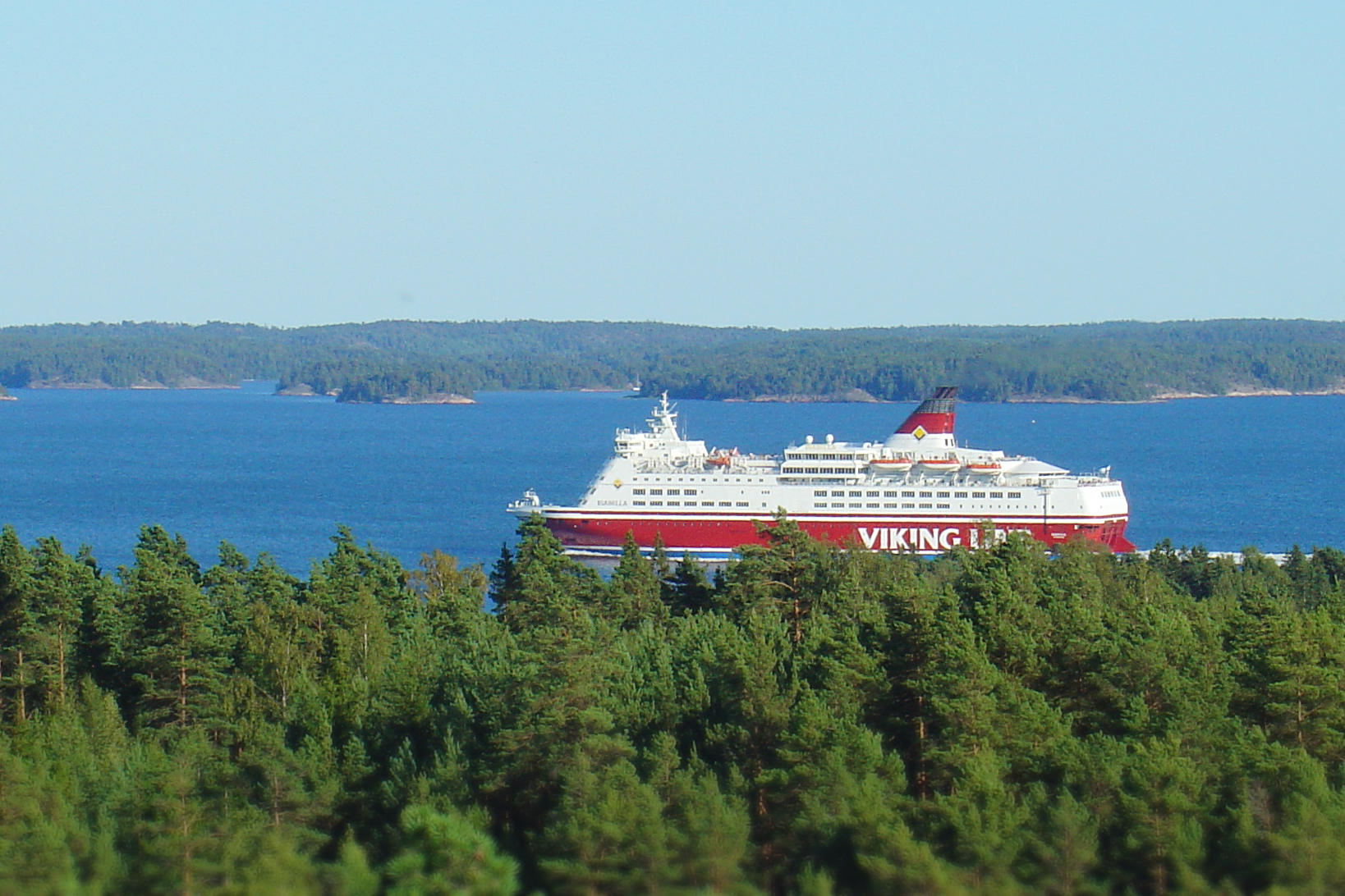 Here's a handful of idyllic Finnish Archipelago Sea for you. The Viking Line cruiseferry Isabella as seen from the air surveillance tower of the Aasla island, Naantali, Finland.